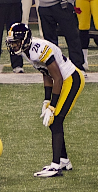 Baltimore Ravens quarterback Joe Flacco under center in the Dec. 2, 2012 game vs Pittsburgh Steelers.